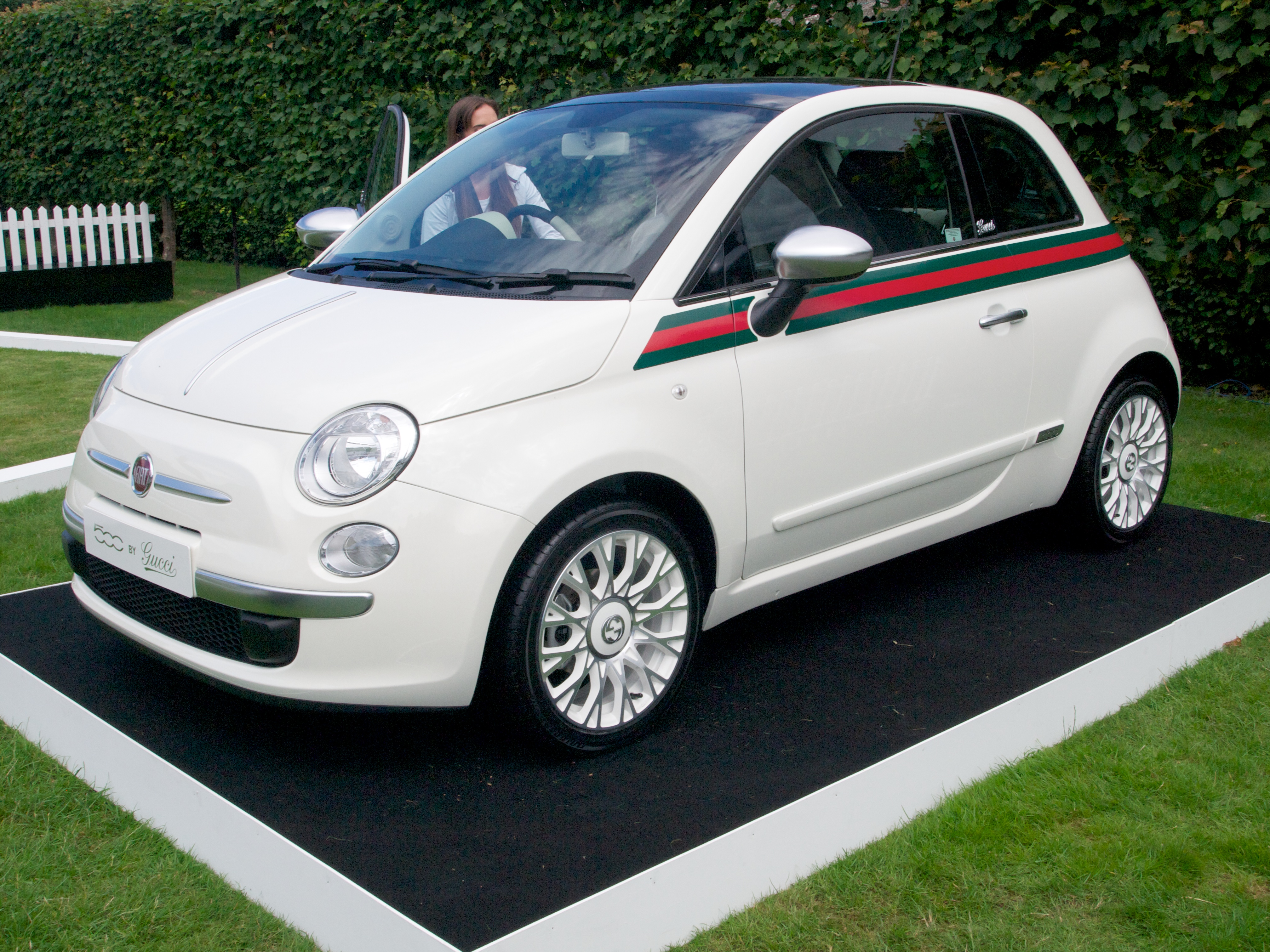 Photos from Goodwood Festival of Speed. The Gucci Fiat 500. Not totally convinced this is a good idea myself but a chap (yes, a male) was trying it out when I was there. Unico esemplare sulla terra a Cantù. La Gucci car del Fraga.